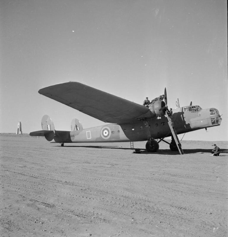 Aircraft of the Royal Air Force, 1939-1945- Bristol Type 130 Bombay. Bombay Mark I, L5845 ‘D’, of No. 216 Squadron RAF, undergoing engine maintenance at Marble Arch Landing Ground, Tripolitania, while engaged on the transportation and resupply of No. 239 Wing RAF, the first Allied fighter wing to operate from the landing ground after its capture on 17 December 1942.